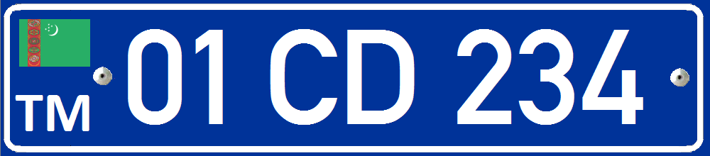 Turkmenistan diplomatic license plate